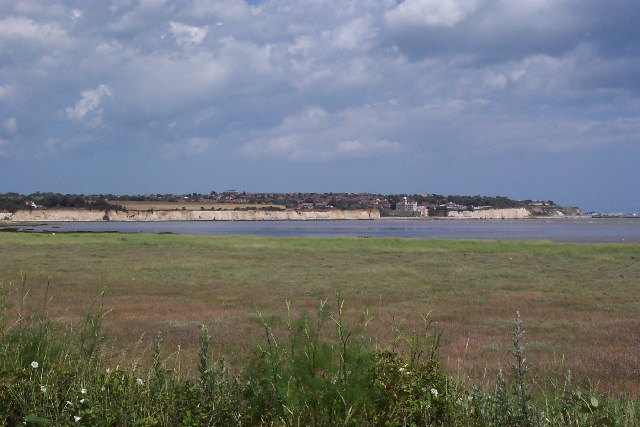 Pegwell Bay, Kent, looking towards Ramsgate. Pegwell Bay is, by tradition, the place where the first Saxons, led by Hengist and Horsa, landed in AD449. It is also where St Augustine arrived in England in AD597 to return it to Christianity. More recently it saw the passage of many thousands of holidaymakers when it became the base for a hovercraft terminal. The shoreline of the bay has been extended in recent times by the dumping of landfill.